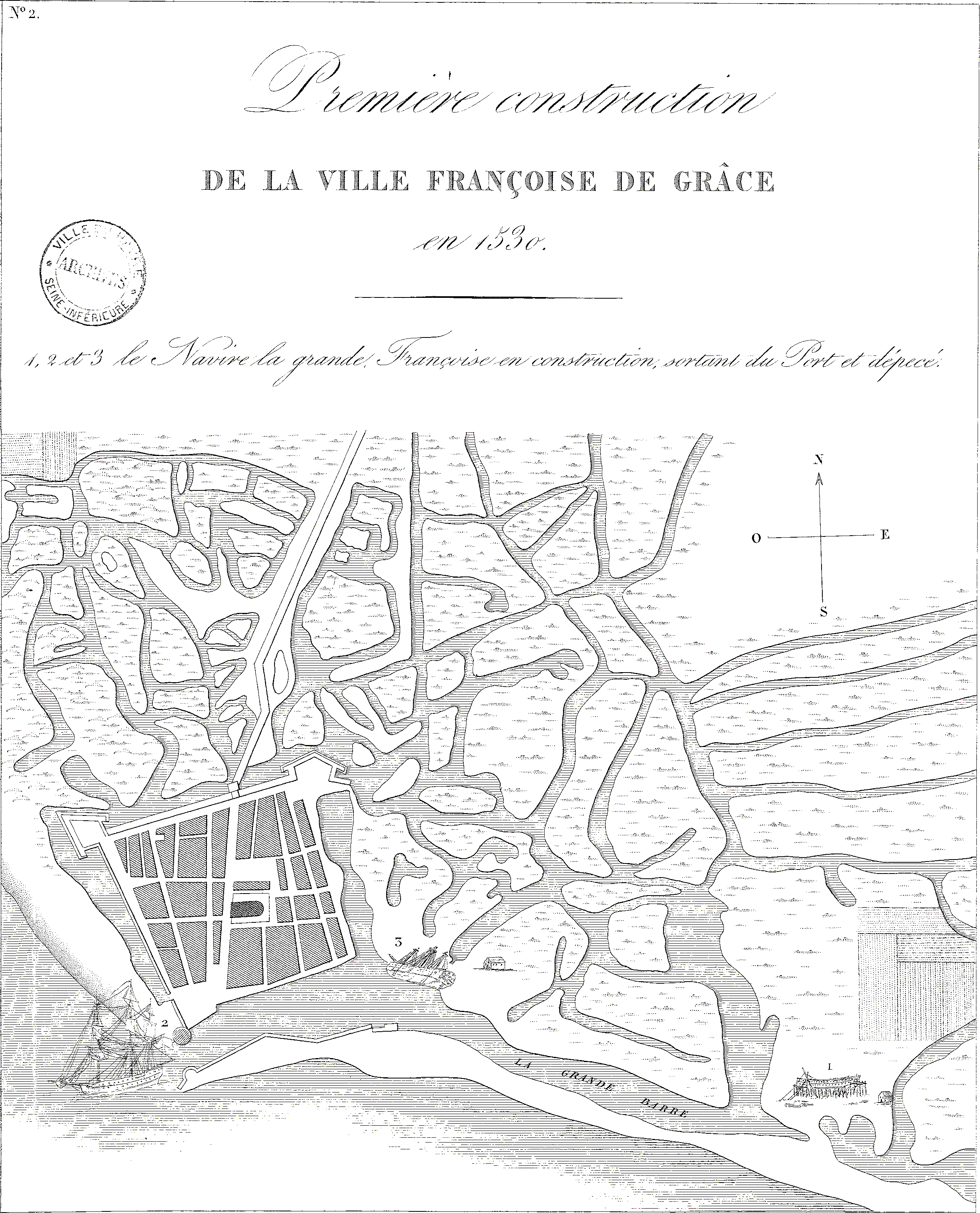 Map fo Le Havre in 1530.